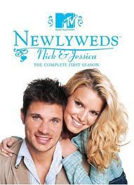 One of the shows Katherine directed, The Newlyweds, starring Jessica Simpson.